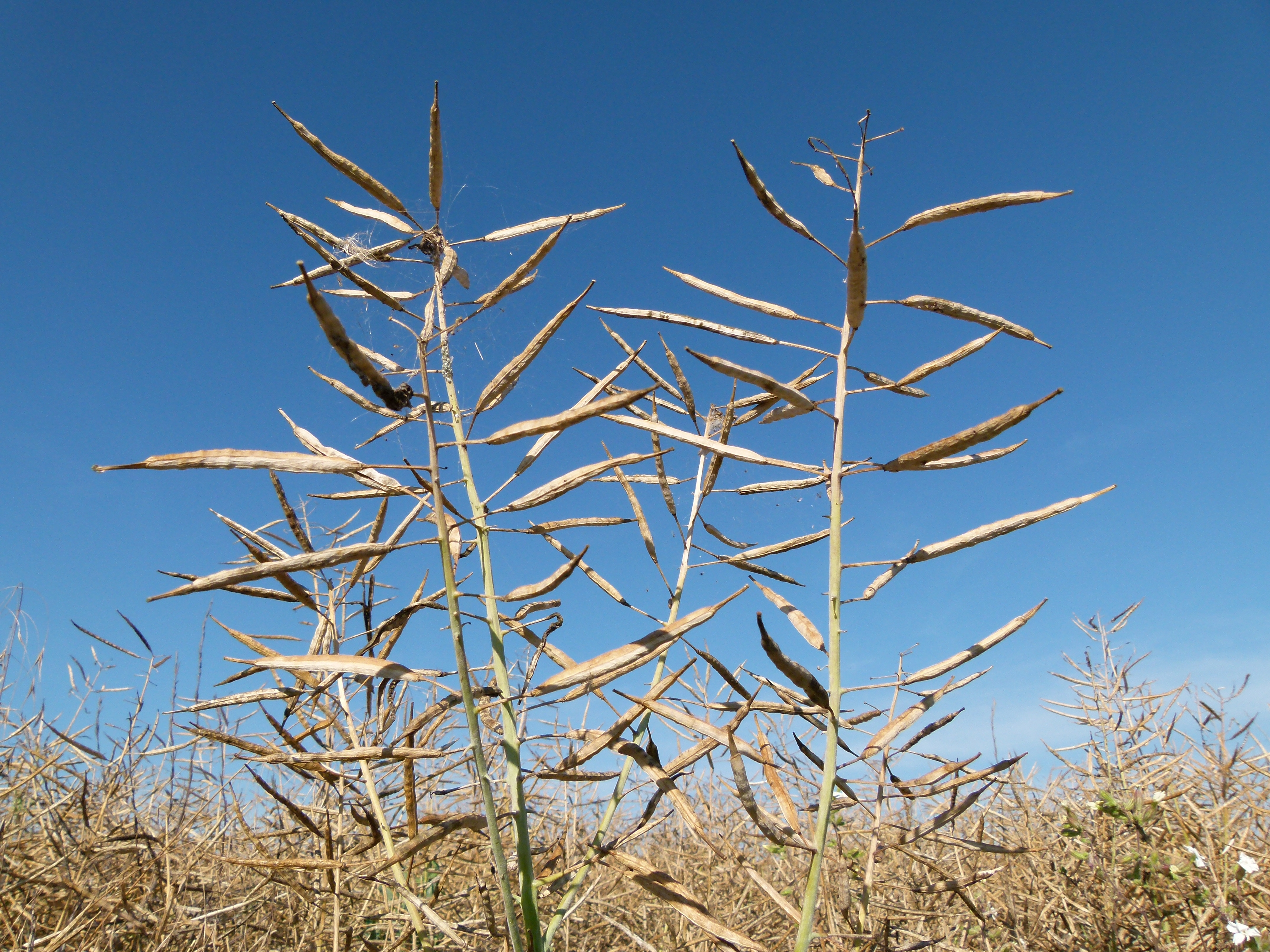 Rapeseed - Brassica napus - in July